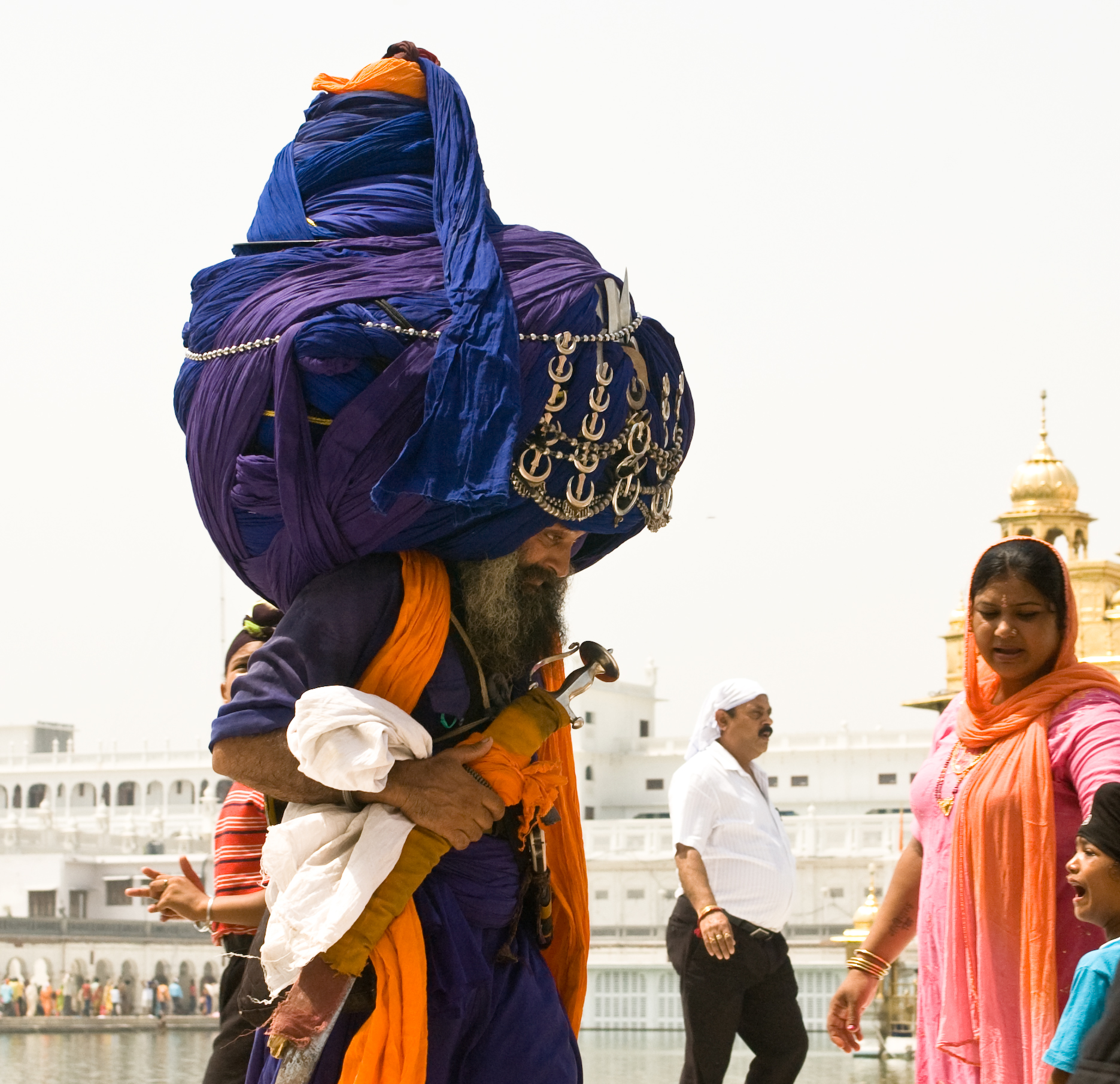 Sikh wearing ceremonial turban at Harmandir Sahib in Amritsar.